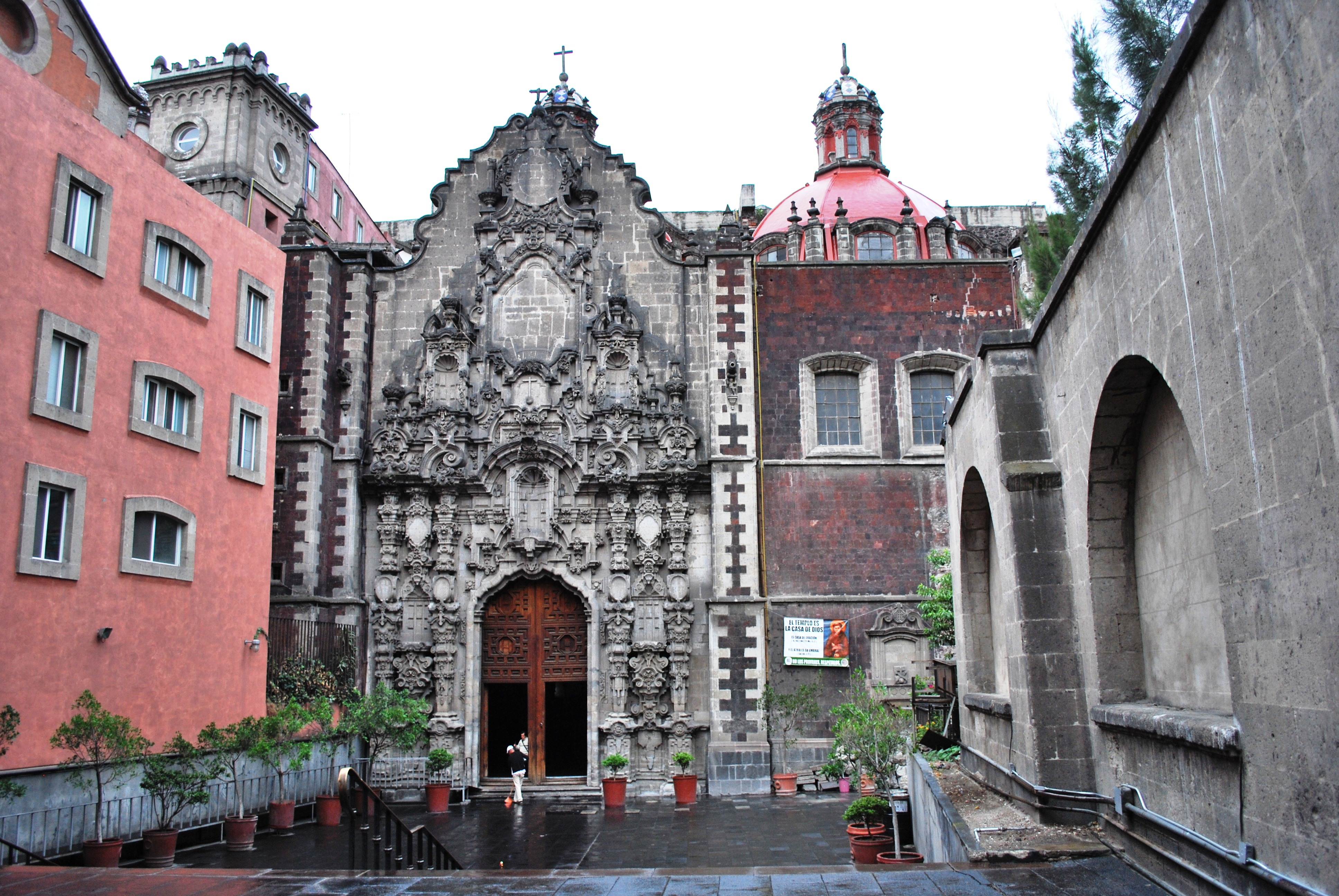 Facade of the San Francisco Church located in the historic center of Mexico City.